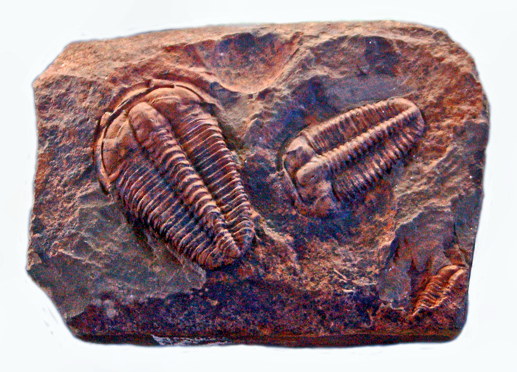 Ptychoparia striata sp. from Czech Republic, at the National Museum (Prague)